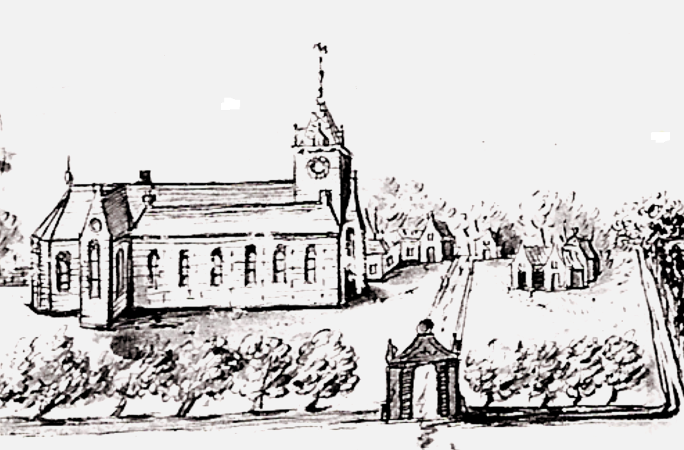 Wittewierum with the medieval church